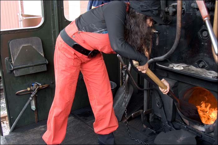 West Somerset Railways, United Kingdom